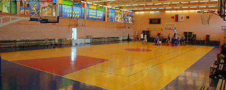 RGUFK gym